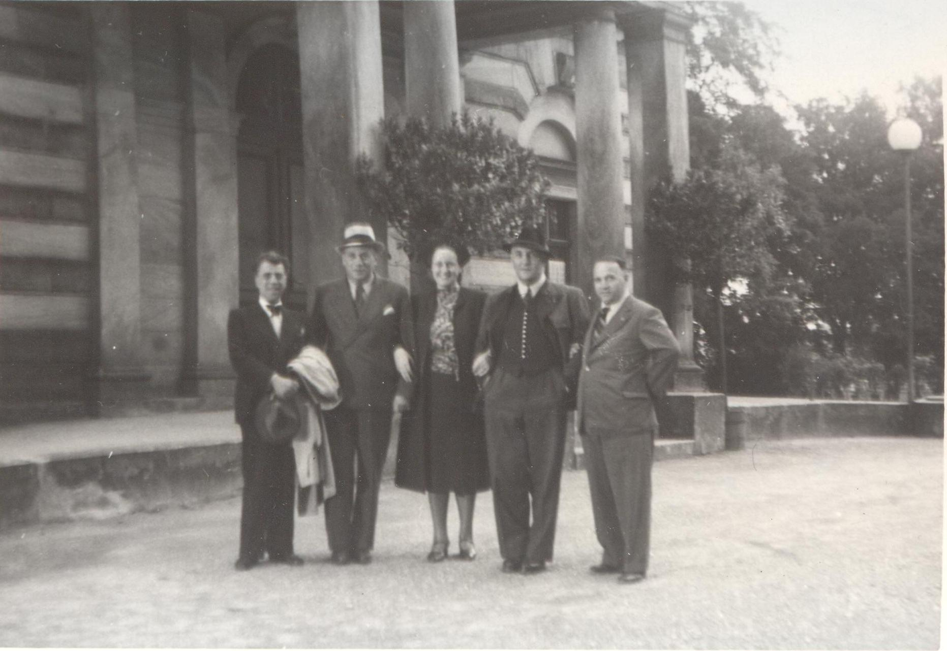 Venedikt Bobchevski, Hans Reinmar, Marta Fuchs, Max Lorenz, Dragan Kardjiev